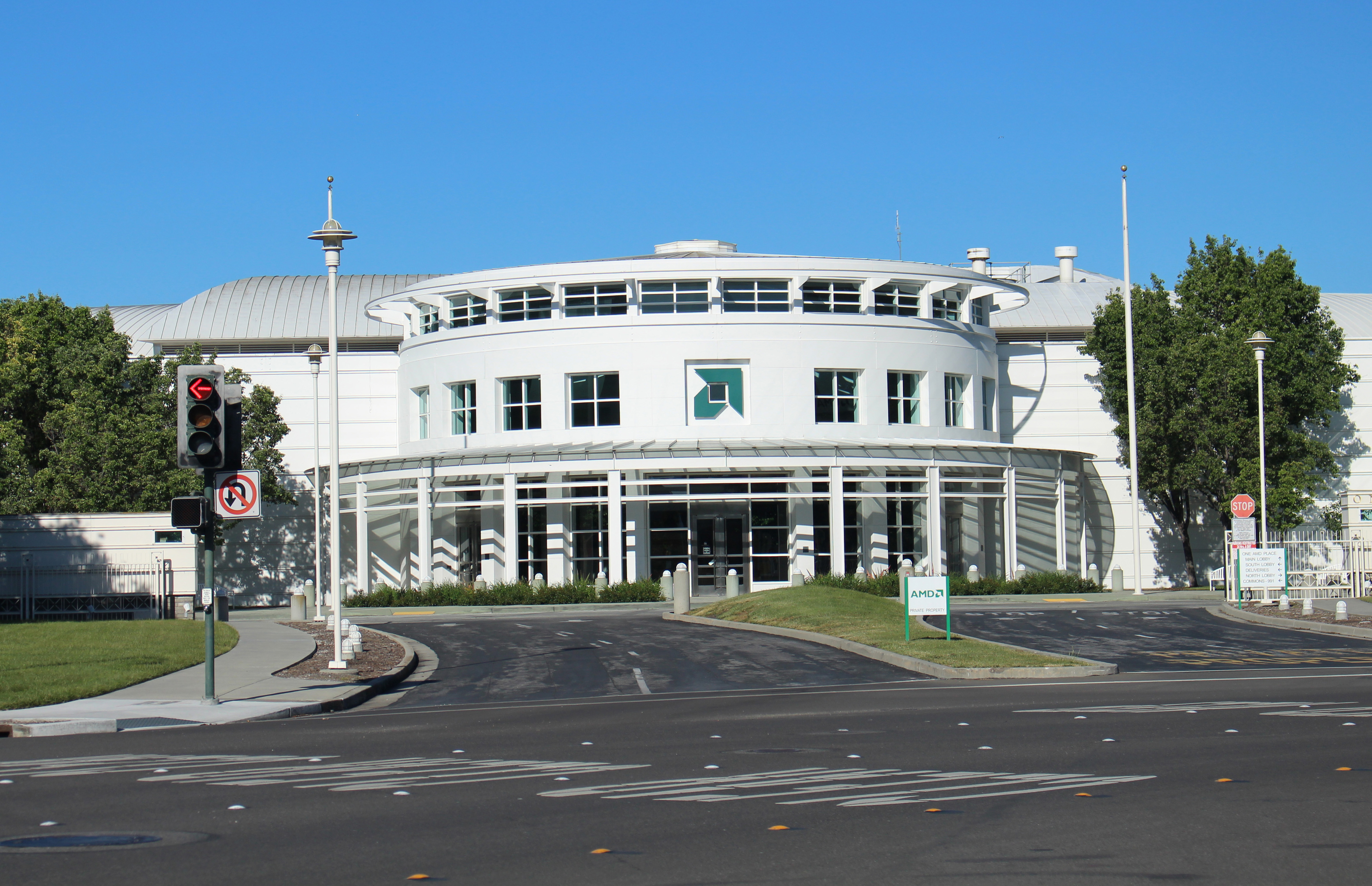 Advanced Micro Devices headquarters at 1 AMD Place in Sunnyvale, California. Photographed by user Coolcaesar on April 29, 2017.